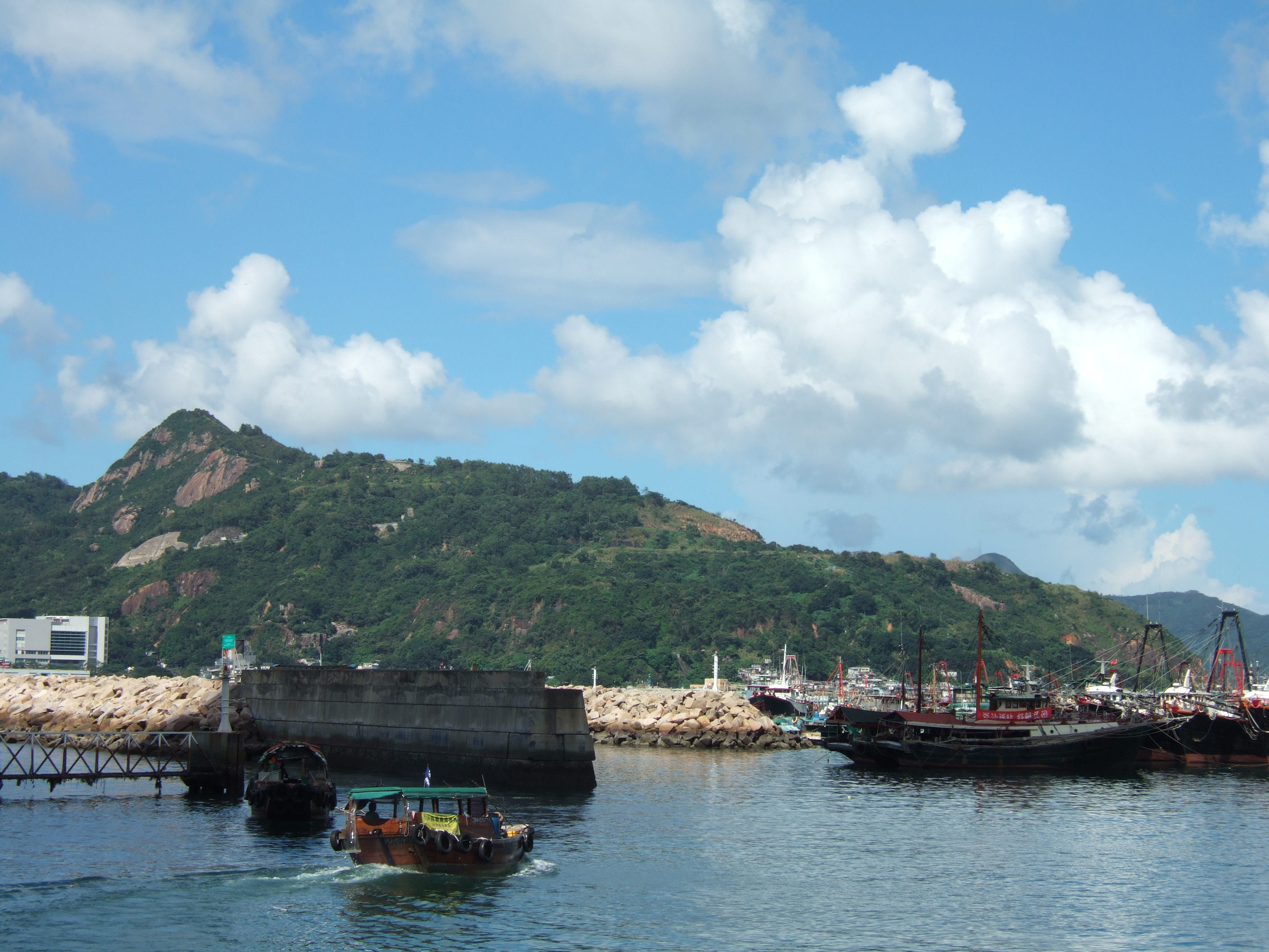 Photo of High Junk Peak